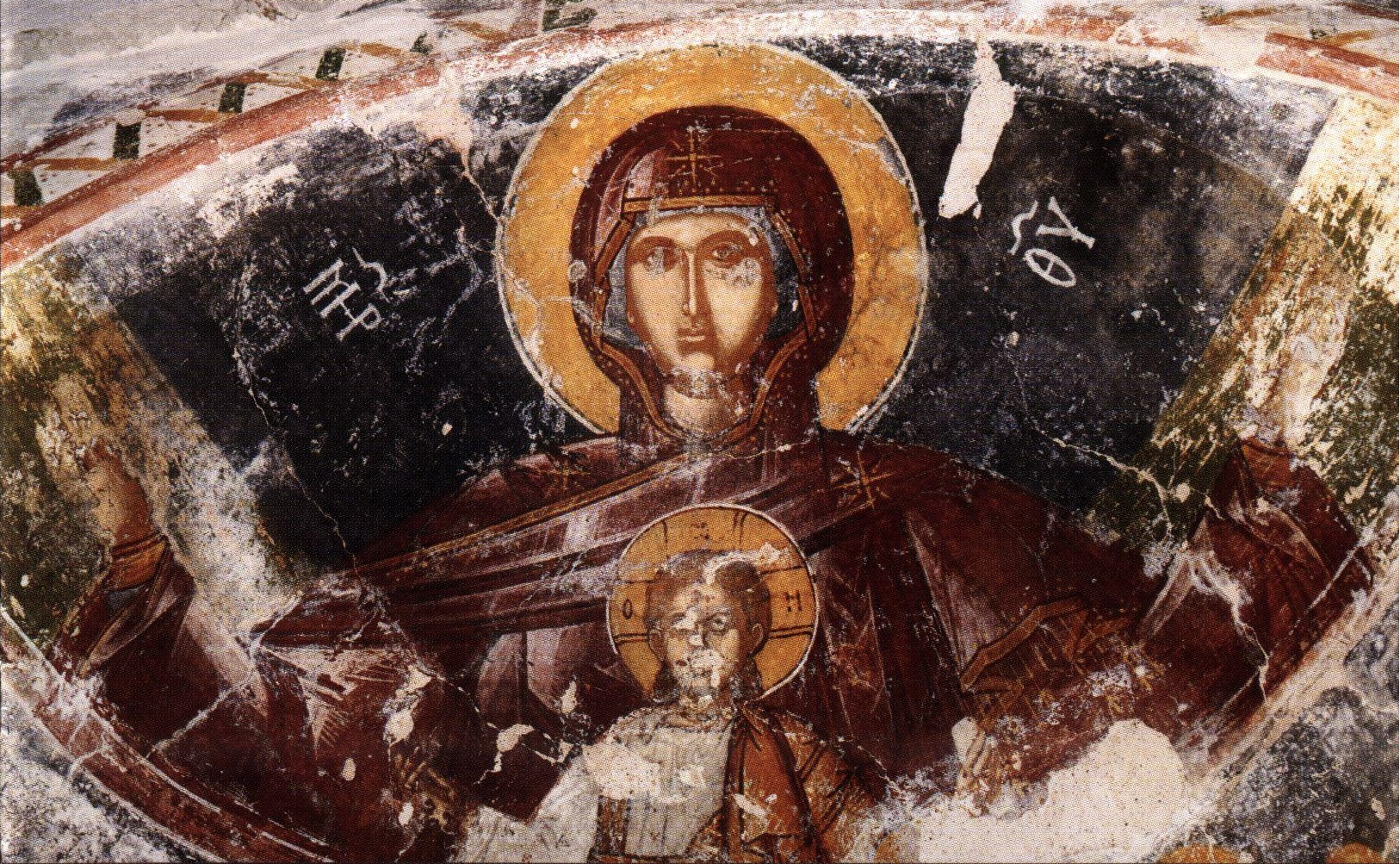 Panagouda Church in Theologos in Thasos Fresco1